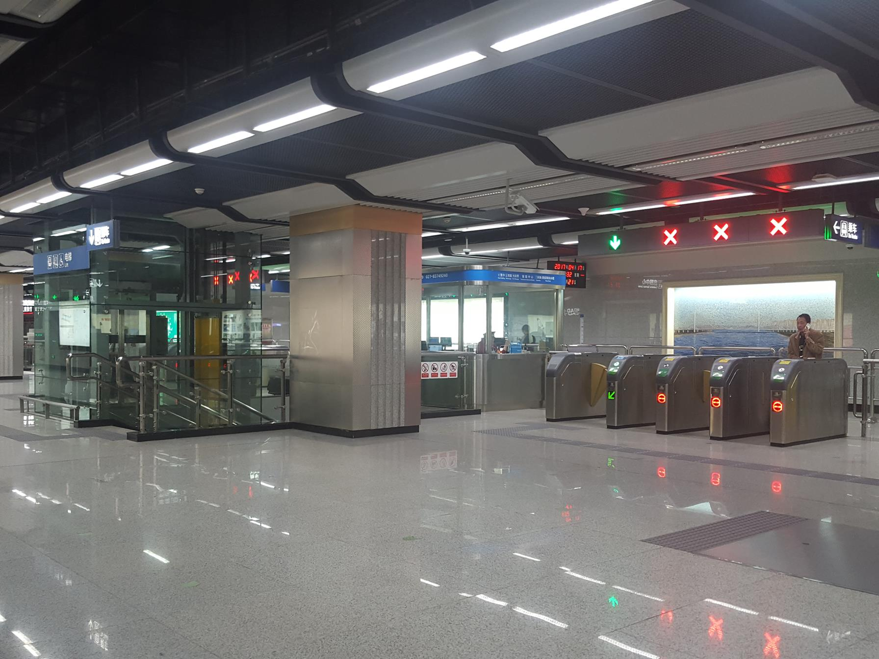 Concourse of Luojiazhuang Station, Wuhan Metro